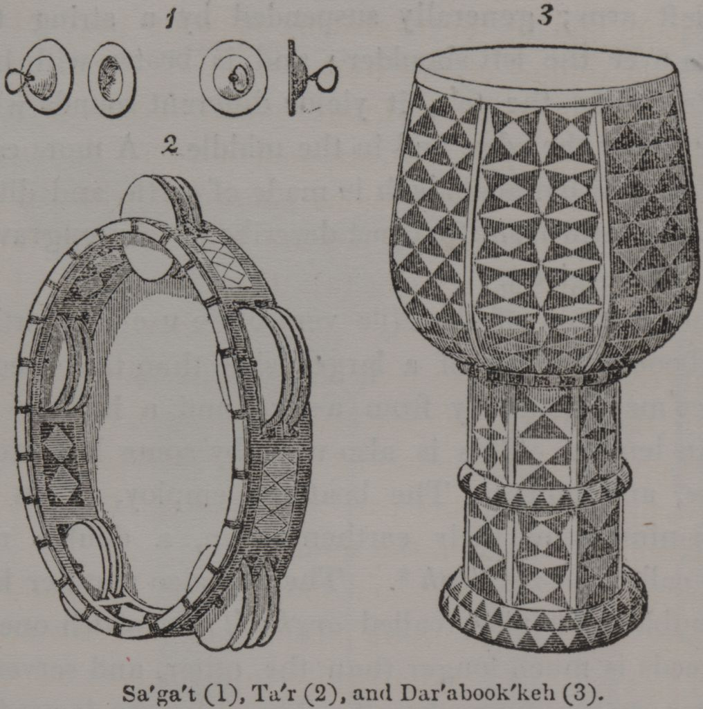 Two sets of brass finger cymbals, a tambourine and a drum. . Engraving (prints).